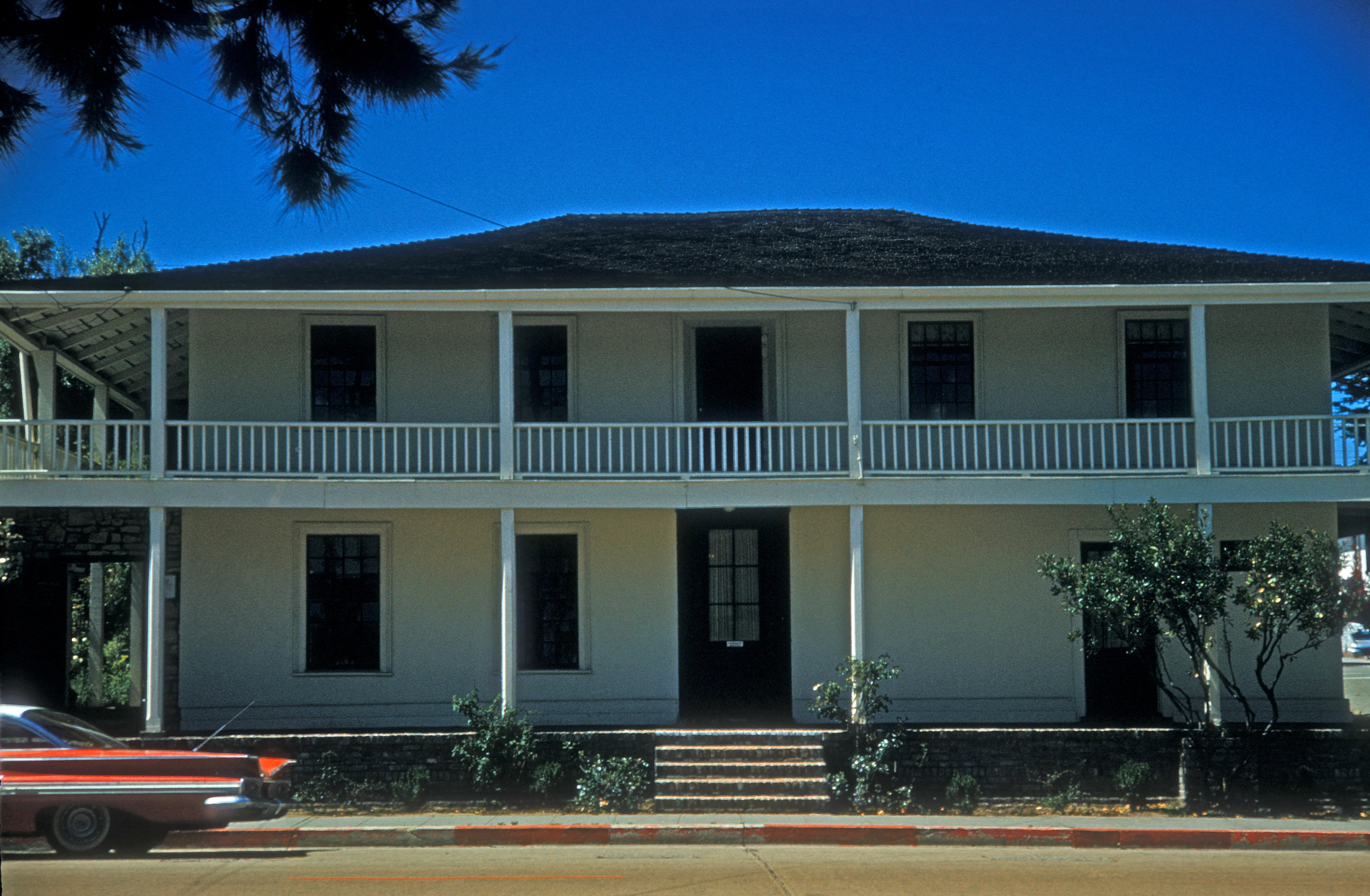 Larkin House BUILT IN 1835 in Monterey, California BY THOMAS OLIVER LARKIN, ONLY U.S. CONSUL TO CALIFORNIA